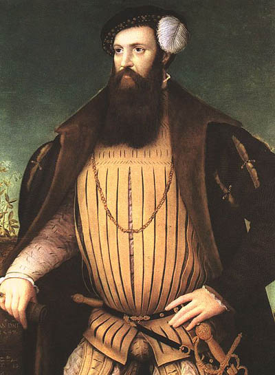 Portrait of an unknown nobleman, but possibly William Grey, 13th Baron Grey de Wilton.